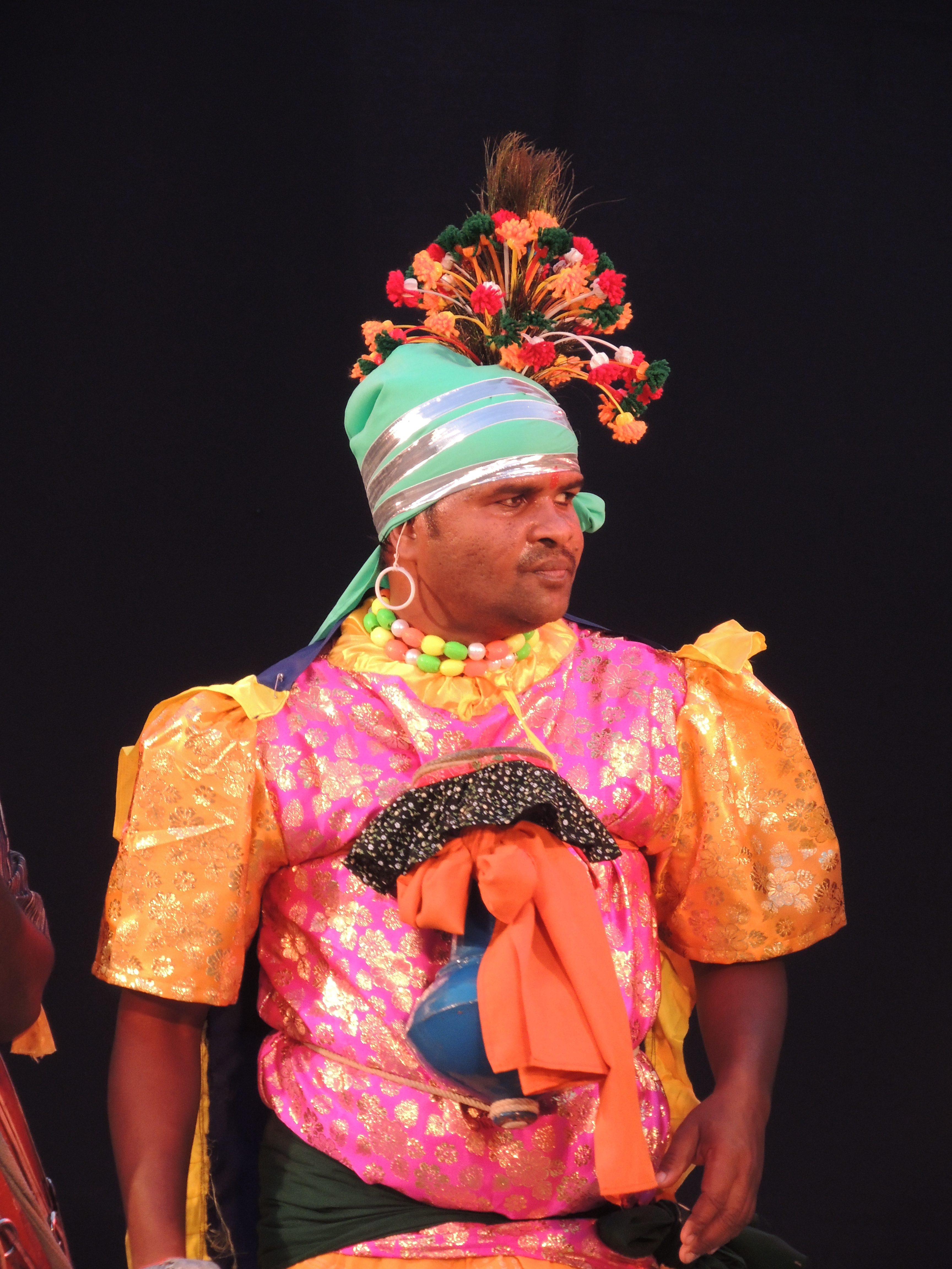 Ghumura dance folk dance orissa odisha